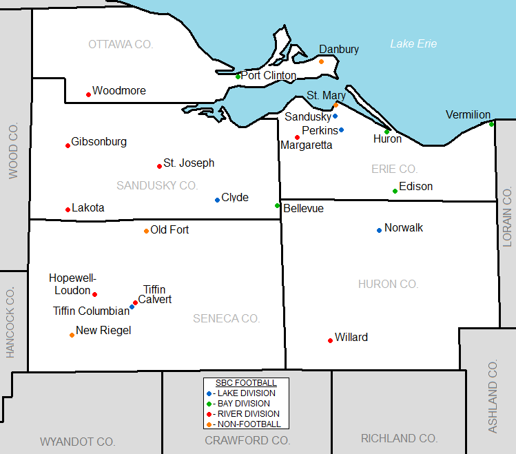 Map showing the locations and divisional breakdown of the SBC for football beginning in 2017-18.